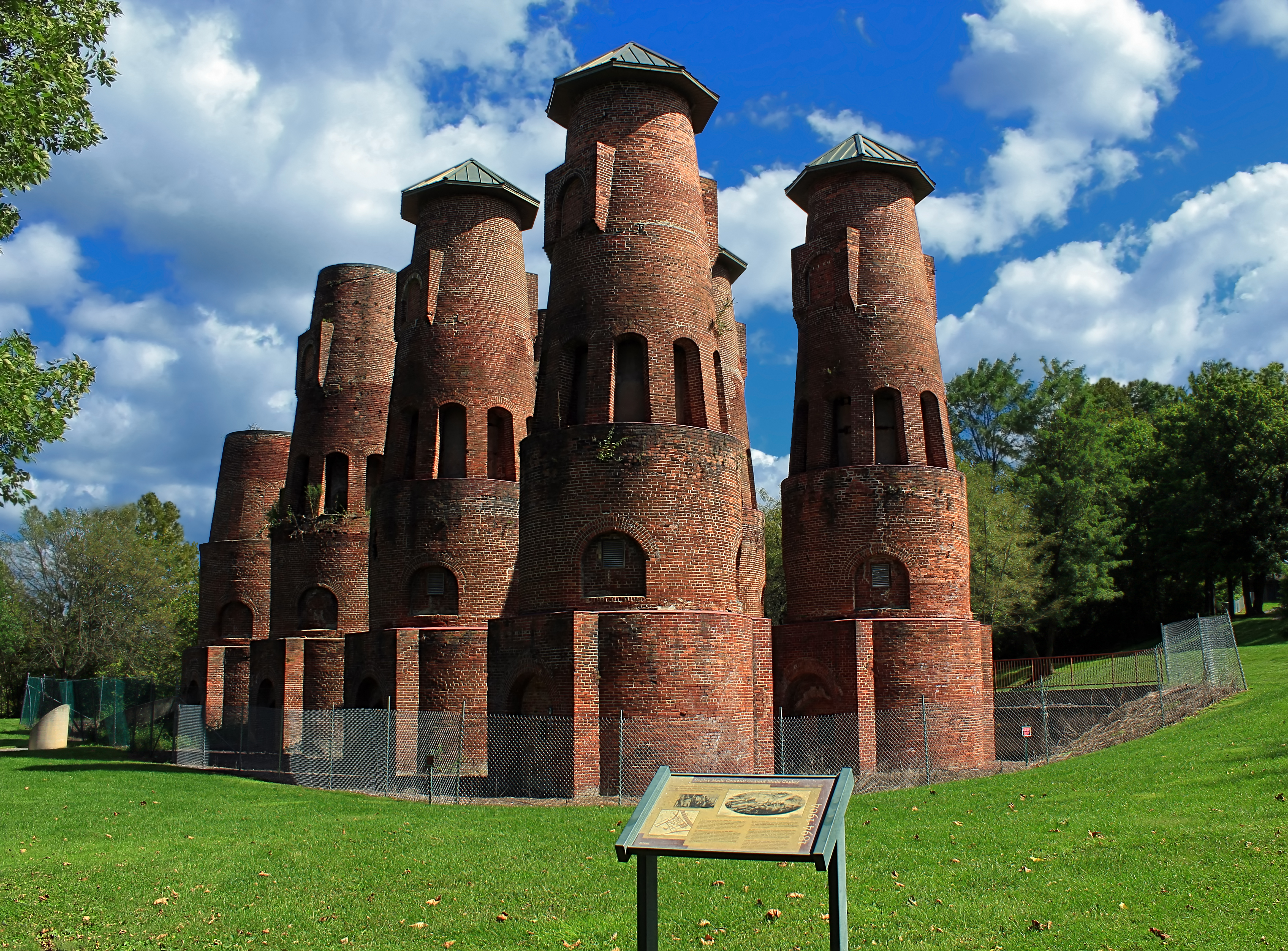 Schoefer kilns, Saylor Park, Lehigh County, within the borough of Coplay. The Coplay Cement Company used the kilns from 1893 to 1904 to manufacture portland cement. The site is listed in the National Register of Historic Places.